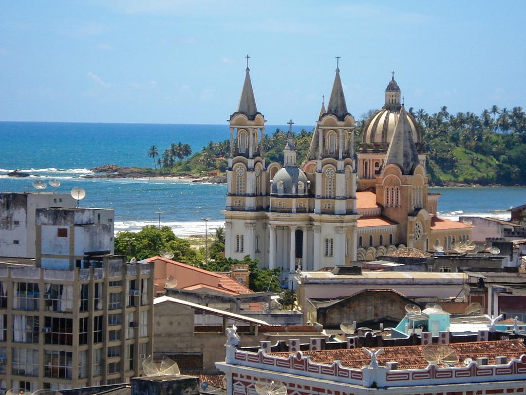 Ilhéus - Bahia - Brazil